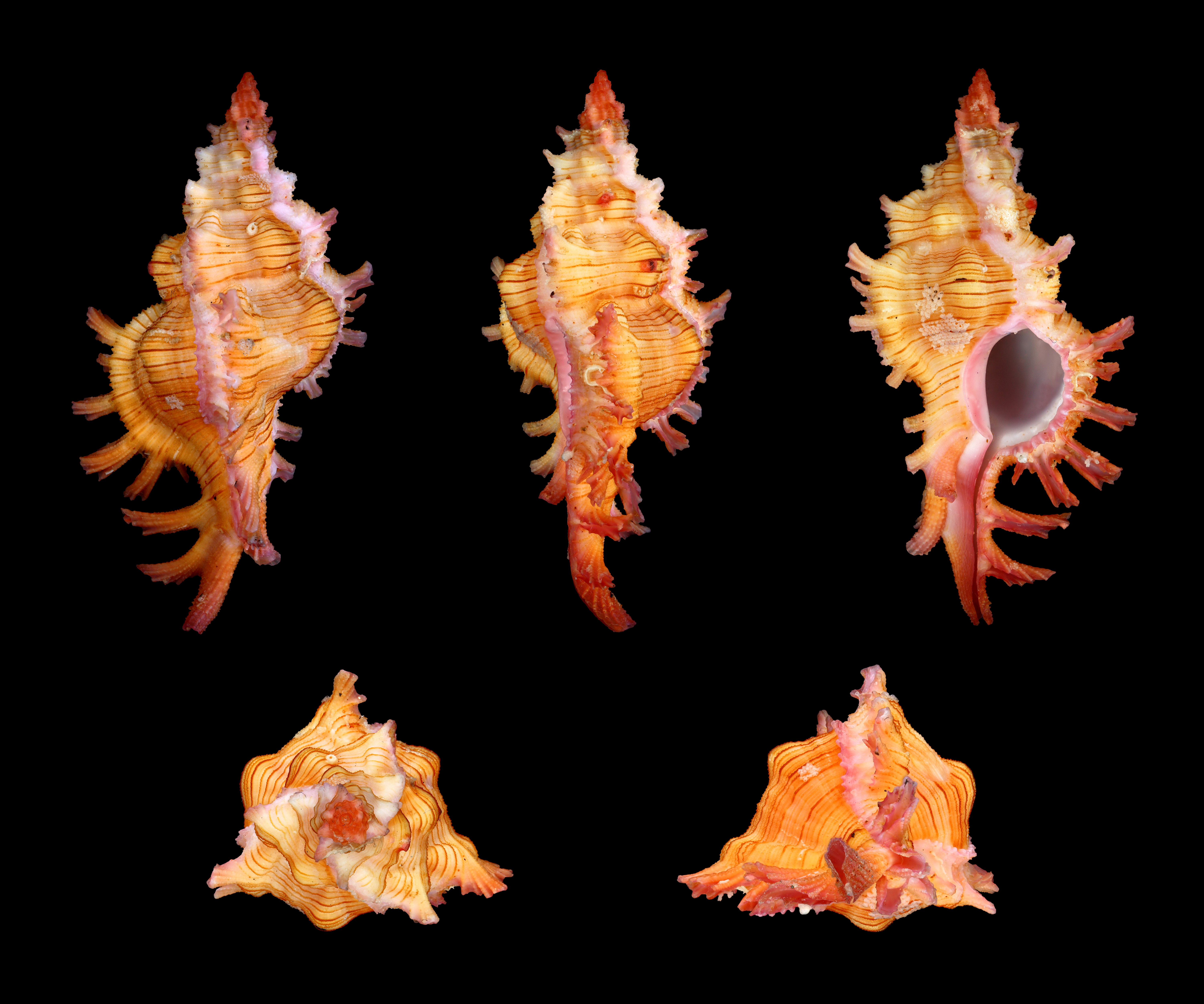 Pendant Murex, Length 4,4 cm; Originating from Panglao Island, Bohol, Philippines; Shell of own collection, therefore not geocoded. Dorsal, lateral (right side), ventral, back, and front view.